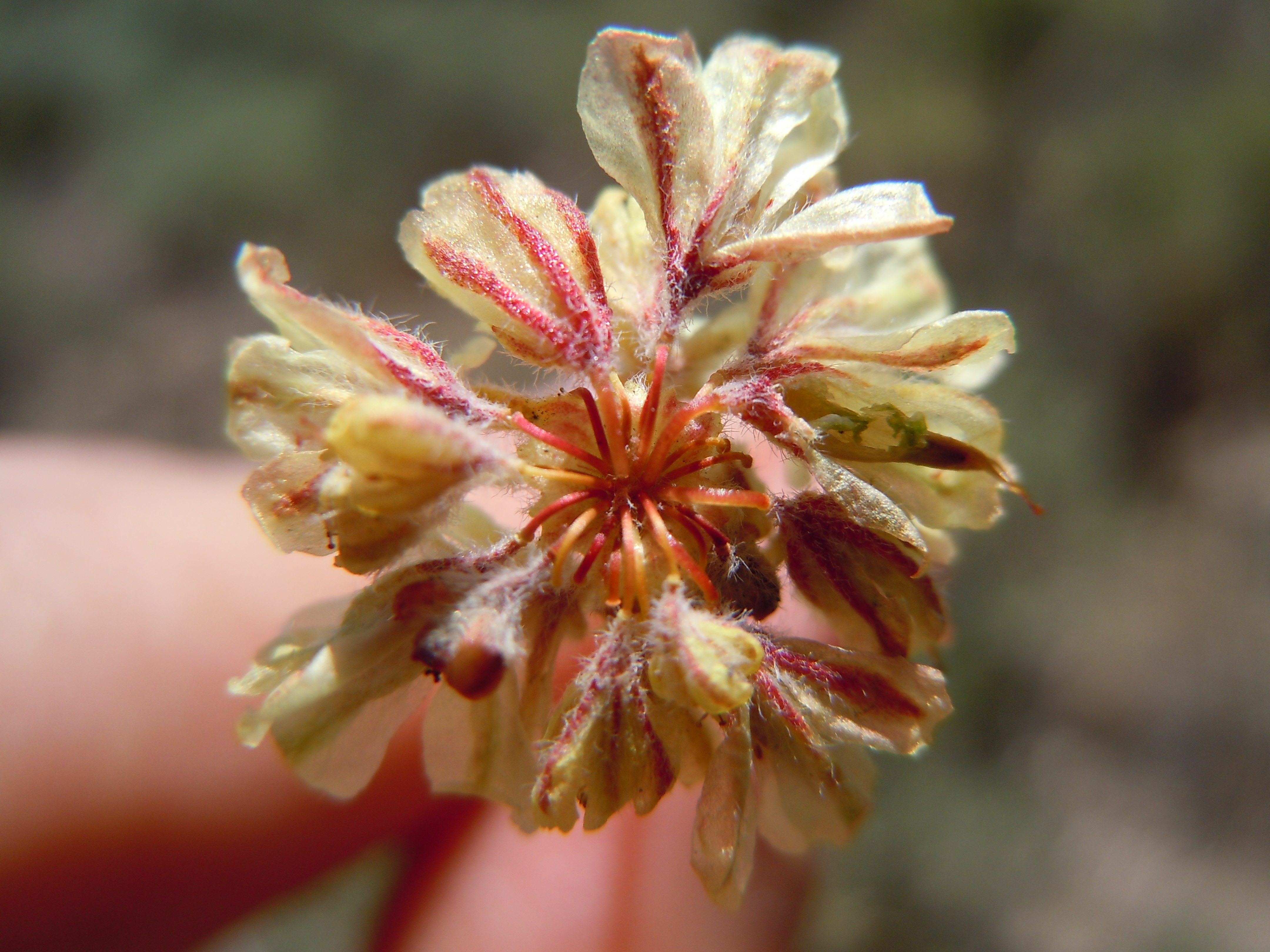 The perianth segments are hairy and taper imperceptibly to the union with the pedicel.